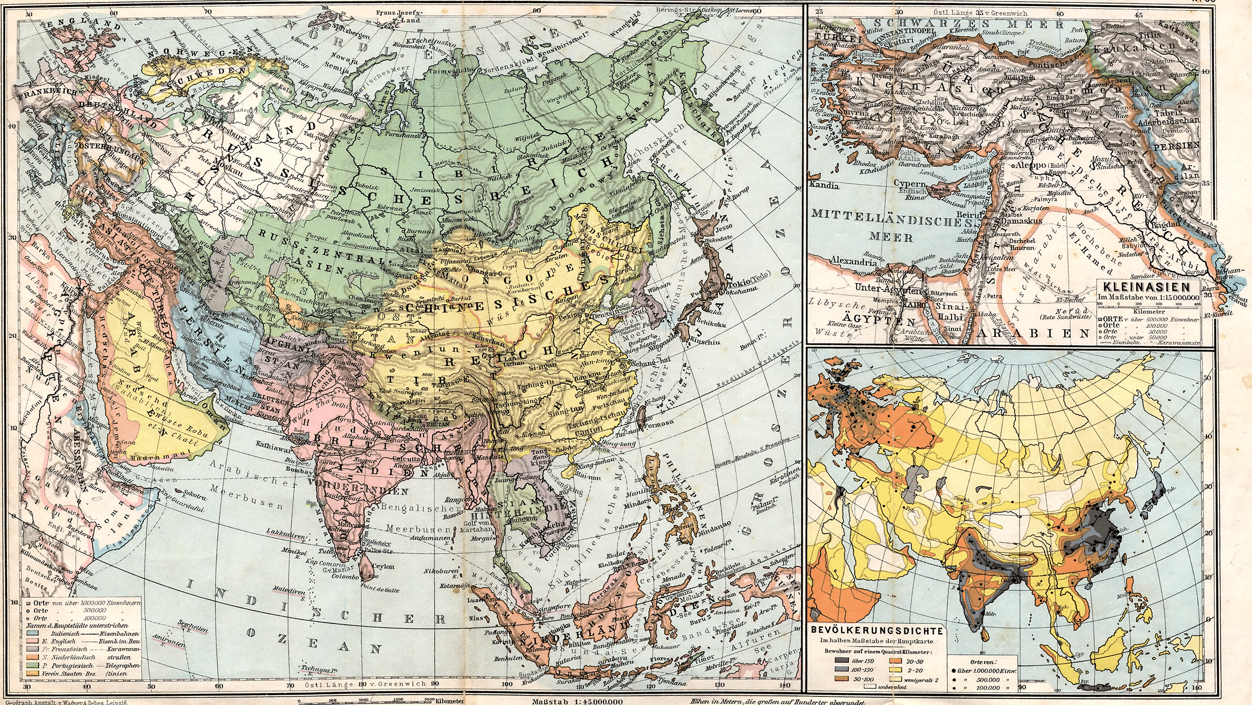 Historical map of Asia